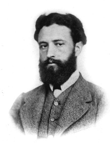 Photo of the portuguese historian Alberto Sampaio